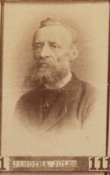 portlate of Juliusz Janotha("Jules" is spelling variant)